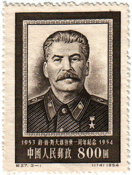 1st anniversary of death of Stalin, 1954